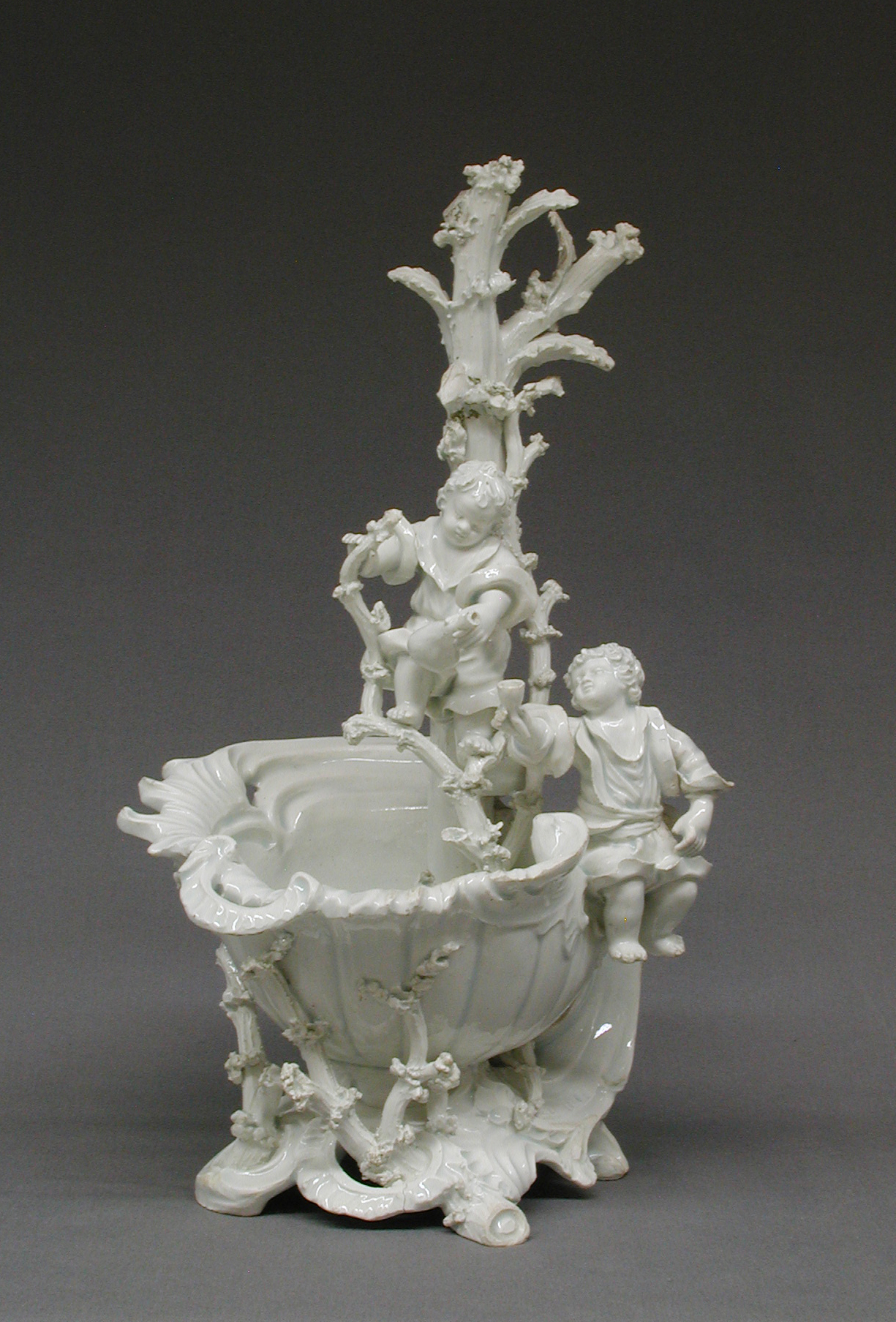 Italian, Le Nove; Group; Ceramics-Pottery